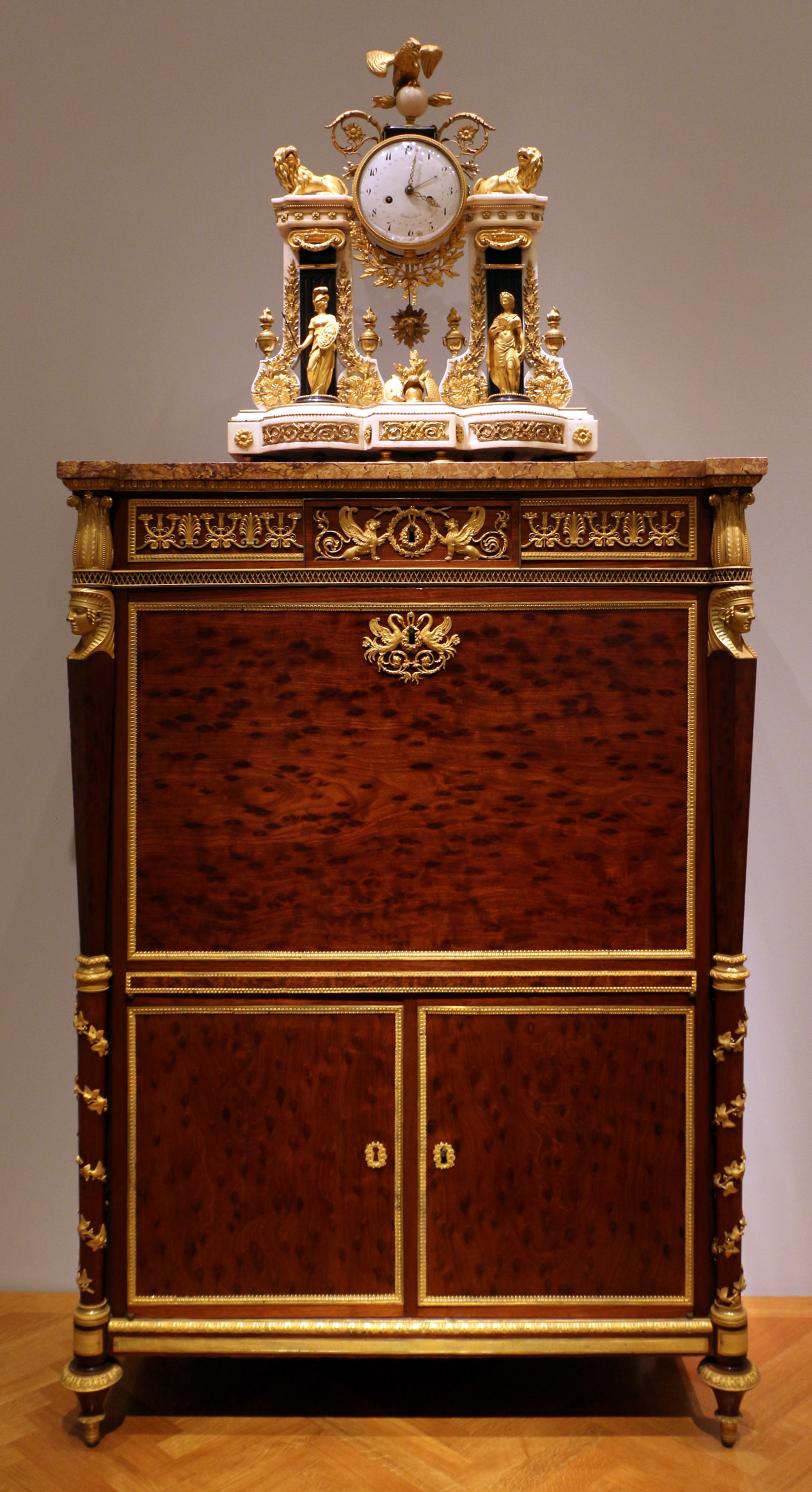 Furniture in the Cleveland Museum of Art